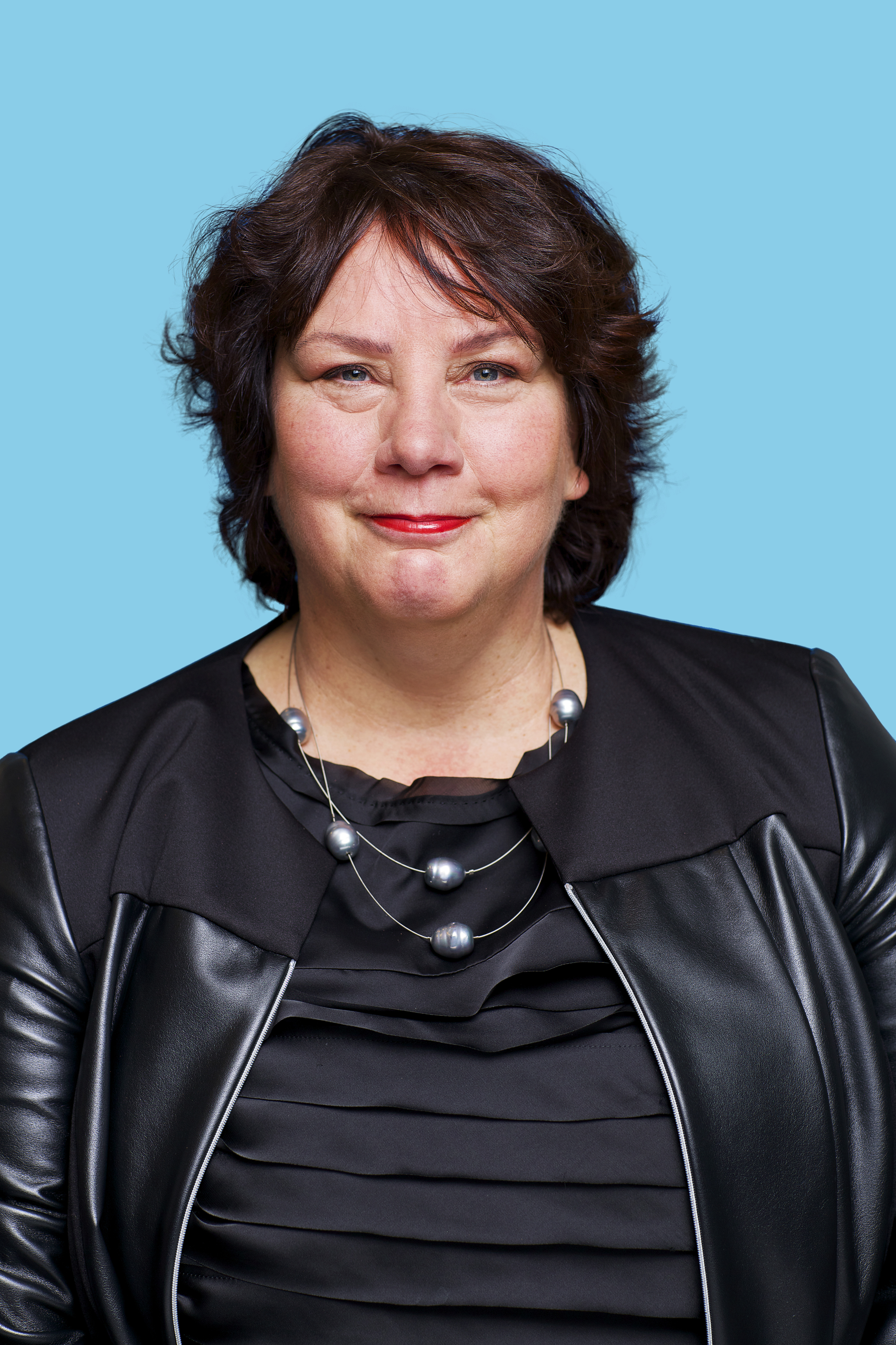 Kandidaat Partij van de Arbeid voor het Europees Parlement. Op pvda.nl de volledige lijst: bit.ly/1b9r60a